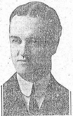 Portrait of New York assemblyman Alvah W. Burlingame Jr.